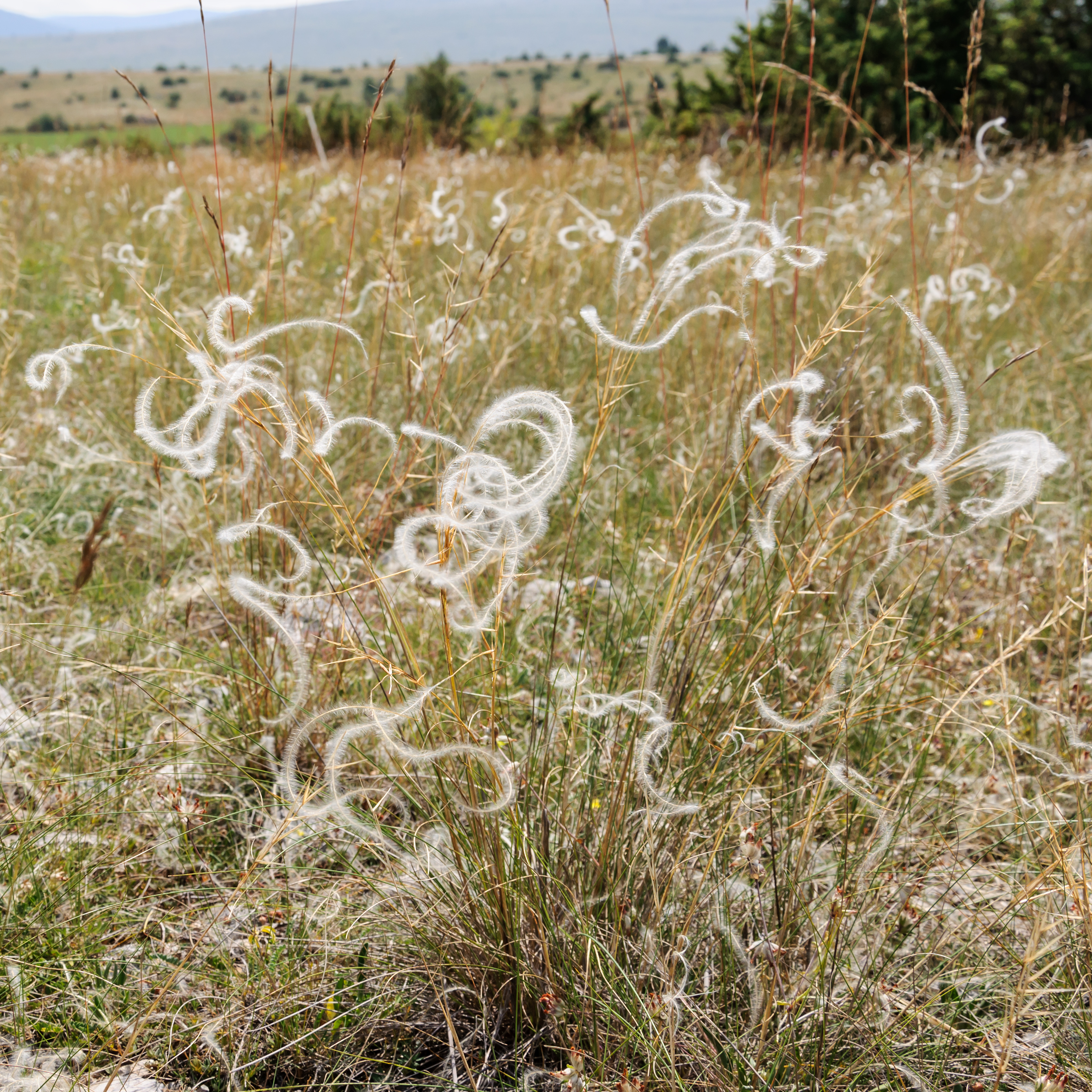 Feather grass (Stipa pennata) in natural habitat on Causse Méjean (Lozère, France)